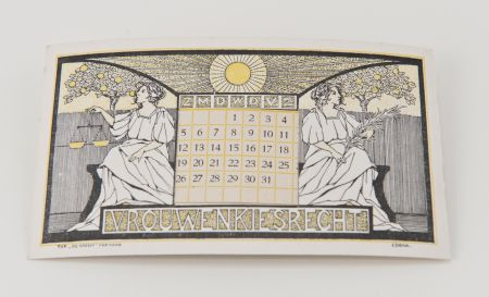 An eternal calendar "Vrouwenkiesrecht" (Women's right to vote) in black and yellow. Two seated women hold a branch and a balance.